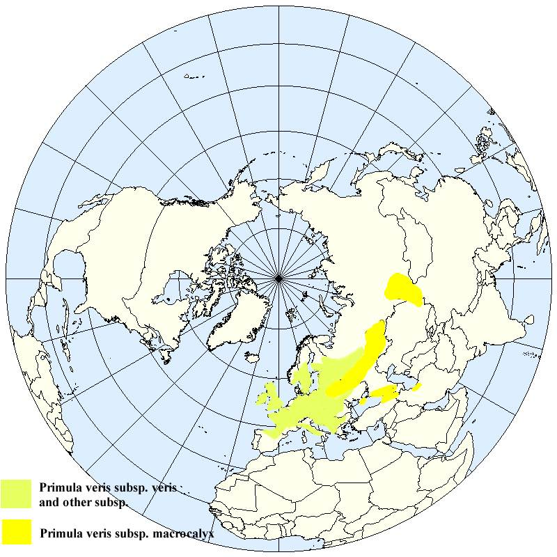 Northern Hemisphere of Earth (Lambert Azimuthal projection) + occurrence of Primula veris and it's subspecies.